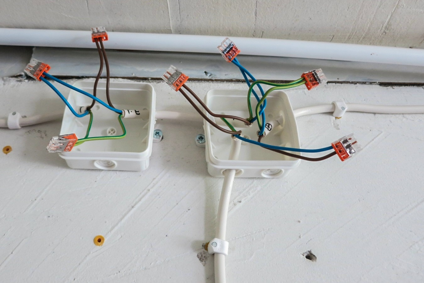 Right opened junction box: connection of wires between power supply cable (left), switch cable (bottom) and lamp cable (right).